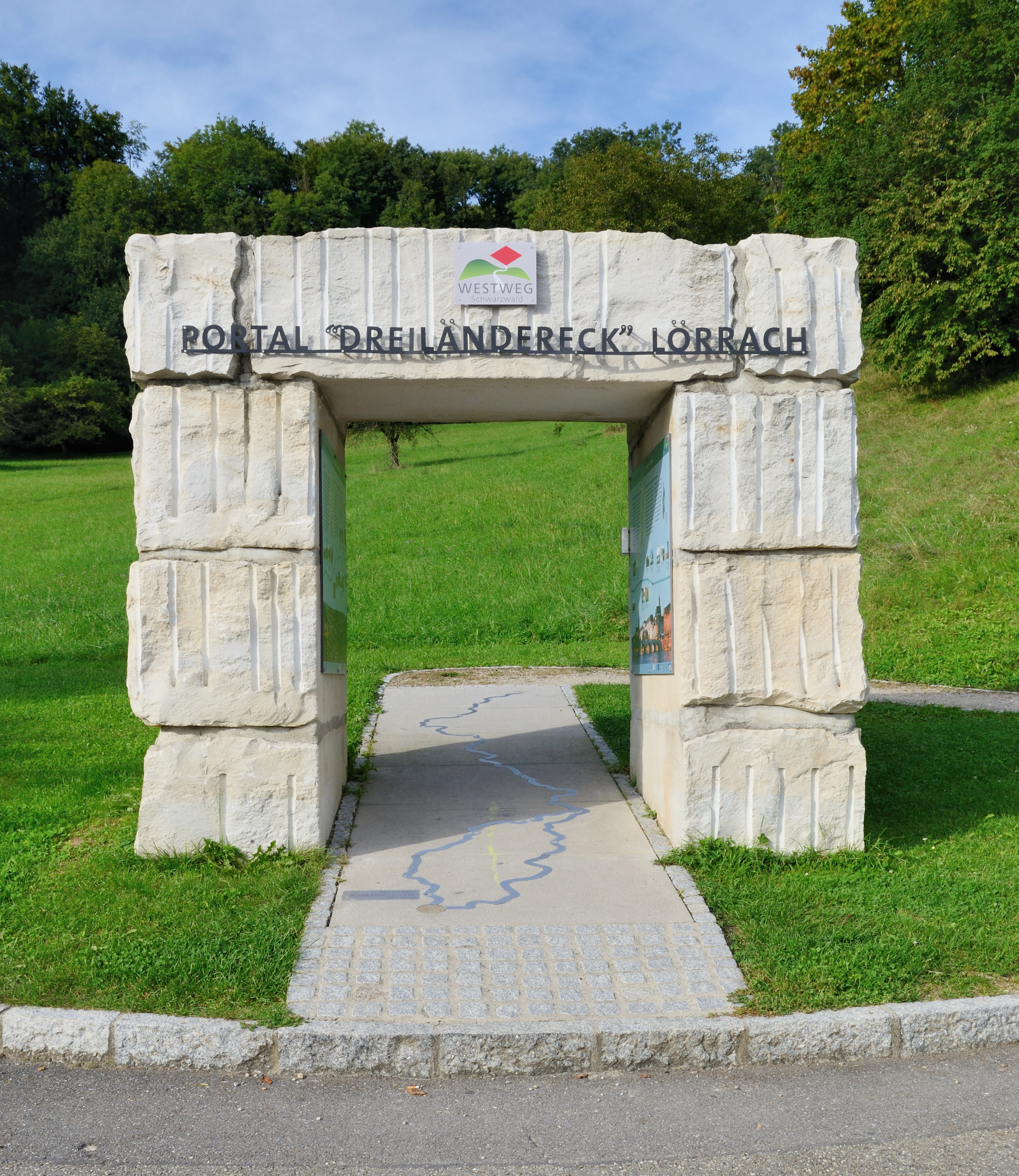 portal of the Westweg (West Trail) near Rötteln Castle